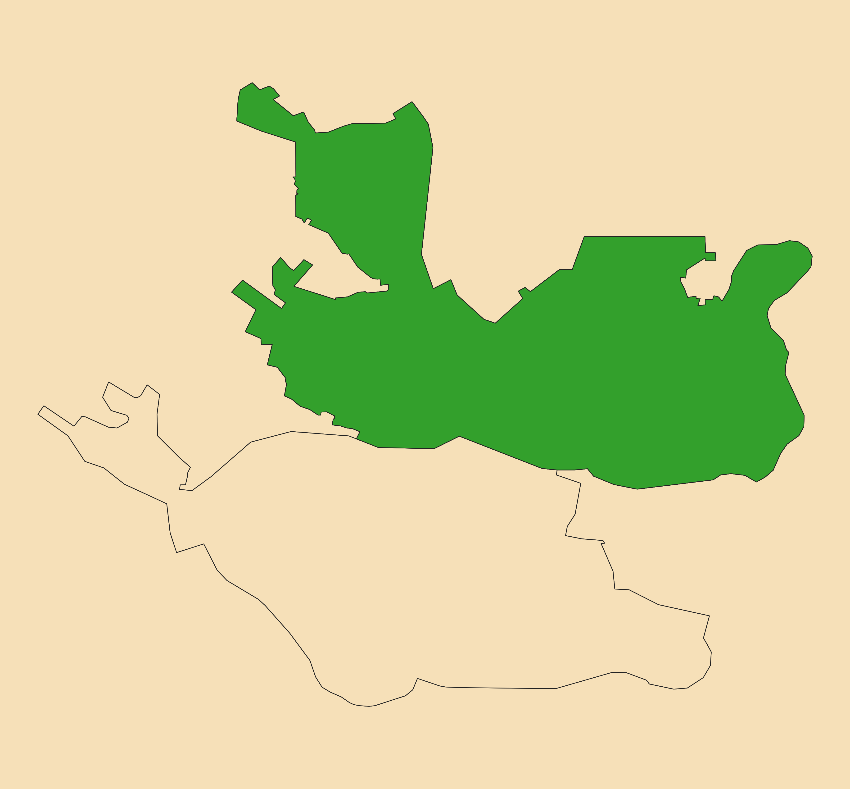 Location of the electoral division of Braitling (dark green) in Alice Springs, Northern Territory at the 2020 Northern Territory election